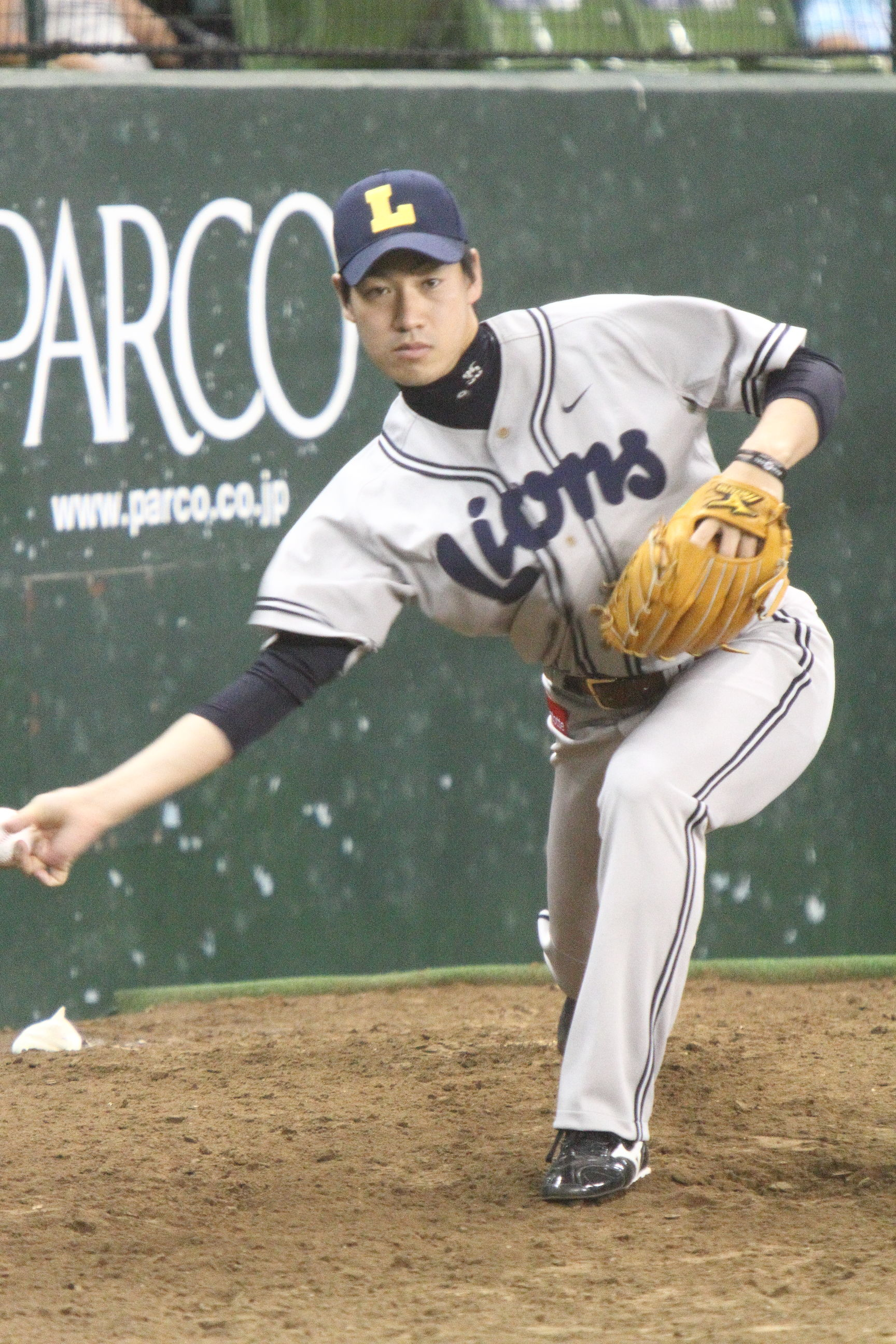 Kazuhisa Makita, pitcher of the Saitama Seibu Lions, at Seibu Dome